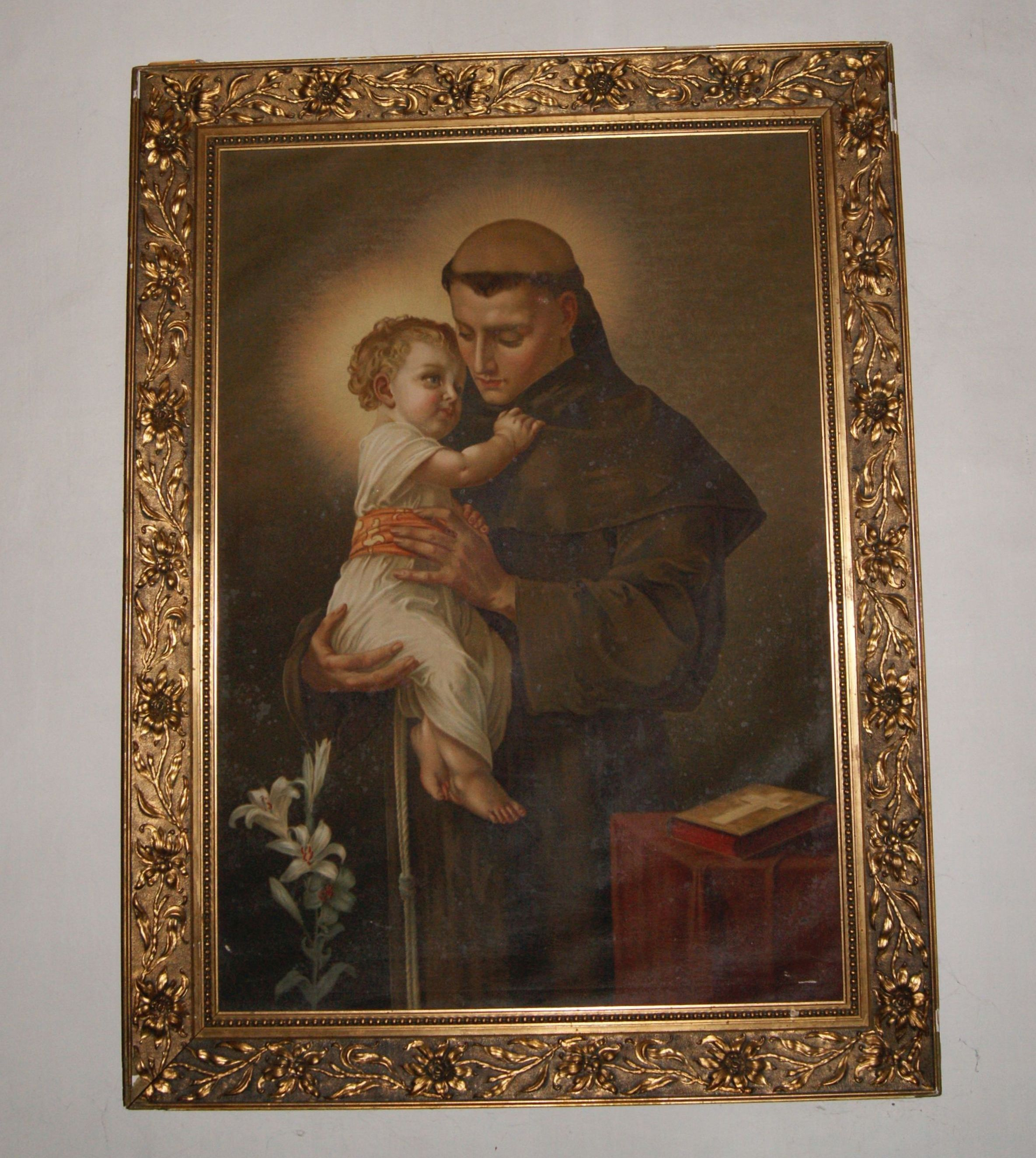 Chapel St. Sebastian and St. Antonius in Hohenems, Vorarlberg, Austria. Picture of St. Anthony of Padua with Child.